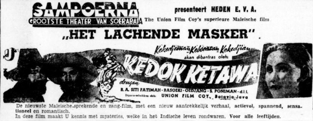 Newspaper advertisement for Kedok Ketawa